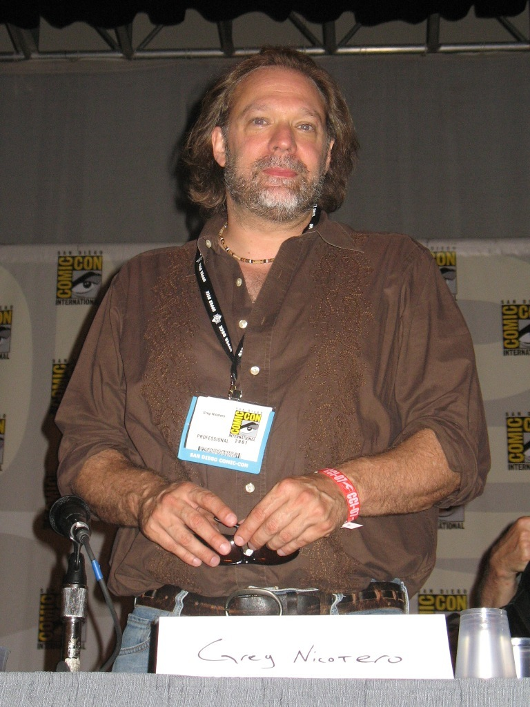 Gregory Nicotero attending the 2007 Comic Con to promote the film The Mist